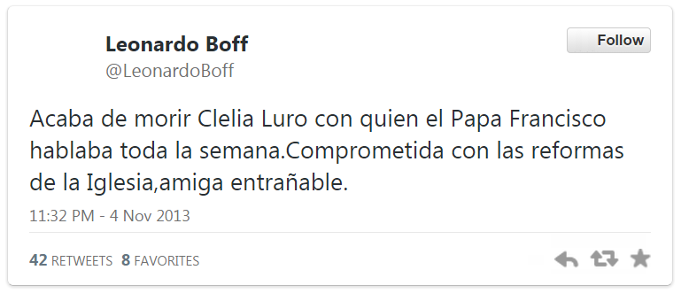 Tweet by Leonardo Boff about Clelia Luro's death, sent on 2014-03-08.